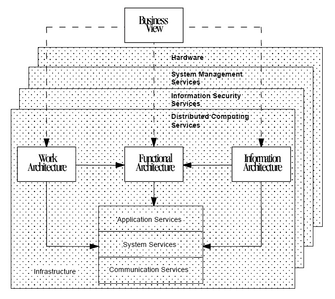 TISAF_Architectural_View_Relationships